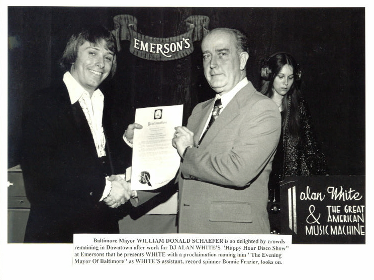 Then-Mayor William Donald Schaefer presenting Alan White with a Proclaimation naming him 'The Evening Mayor of Baltimore' in 1975, in honor of his efforts to revive nightlife in downtown Baltimore. (Also featured: White's production assistant, Bonnie Frazier.)